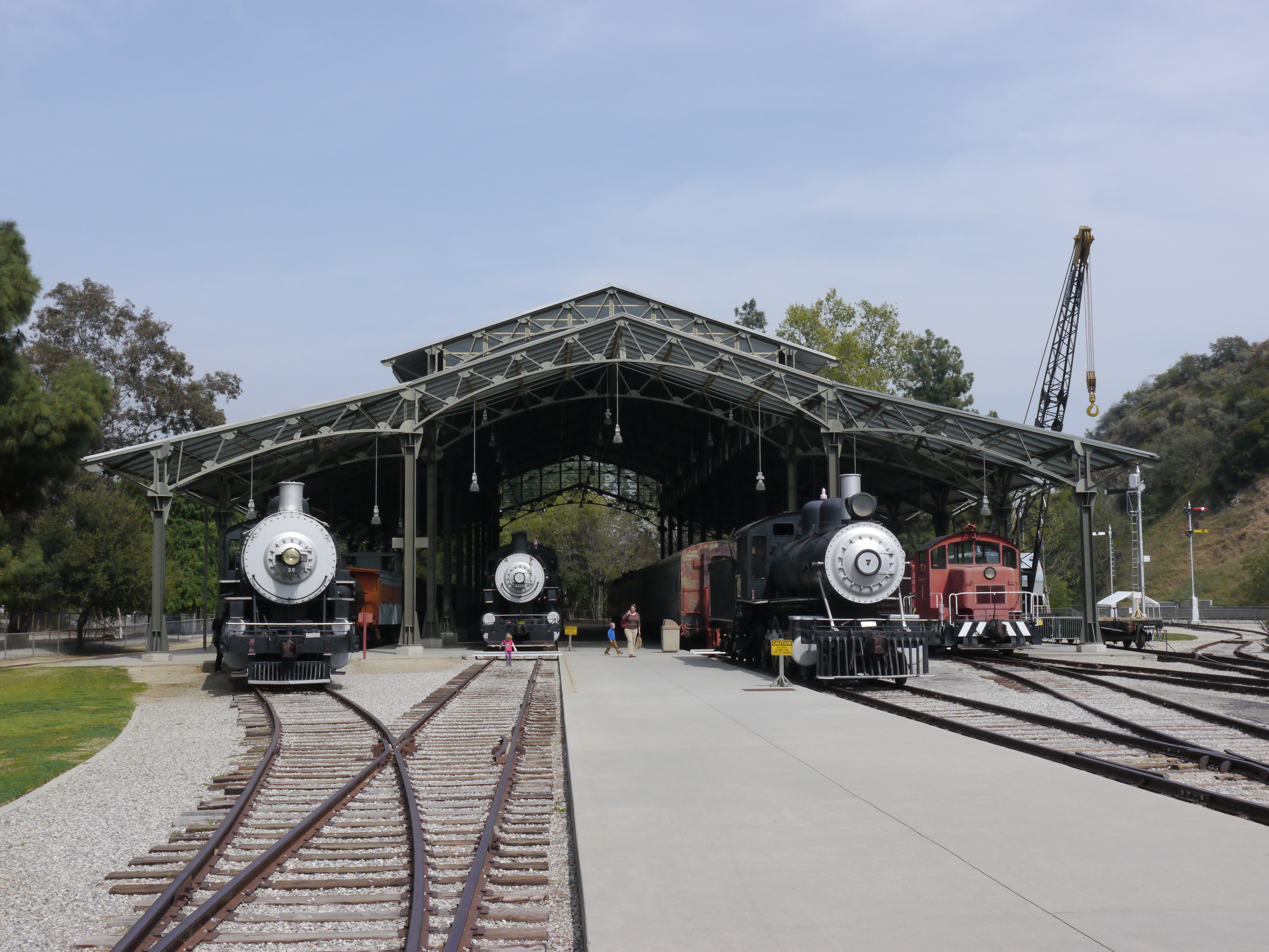 Travel Town, Los Angeles.